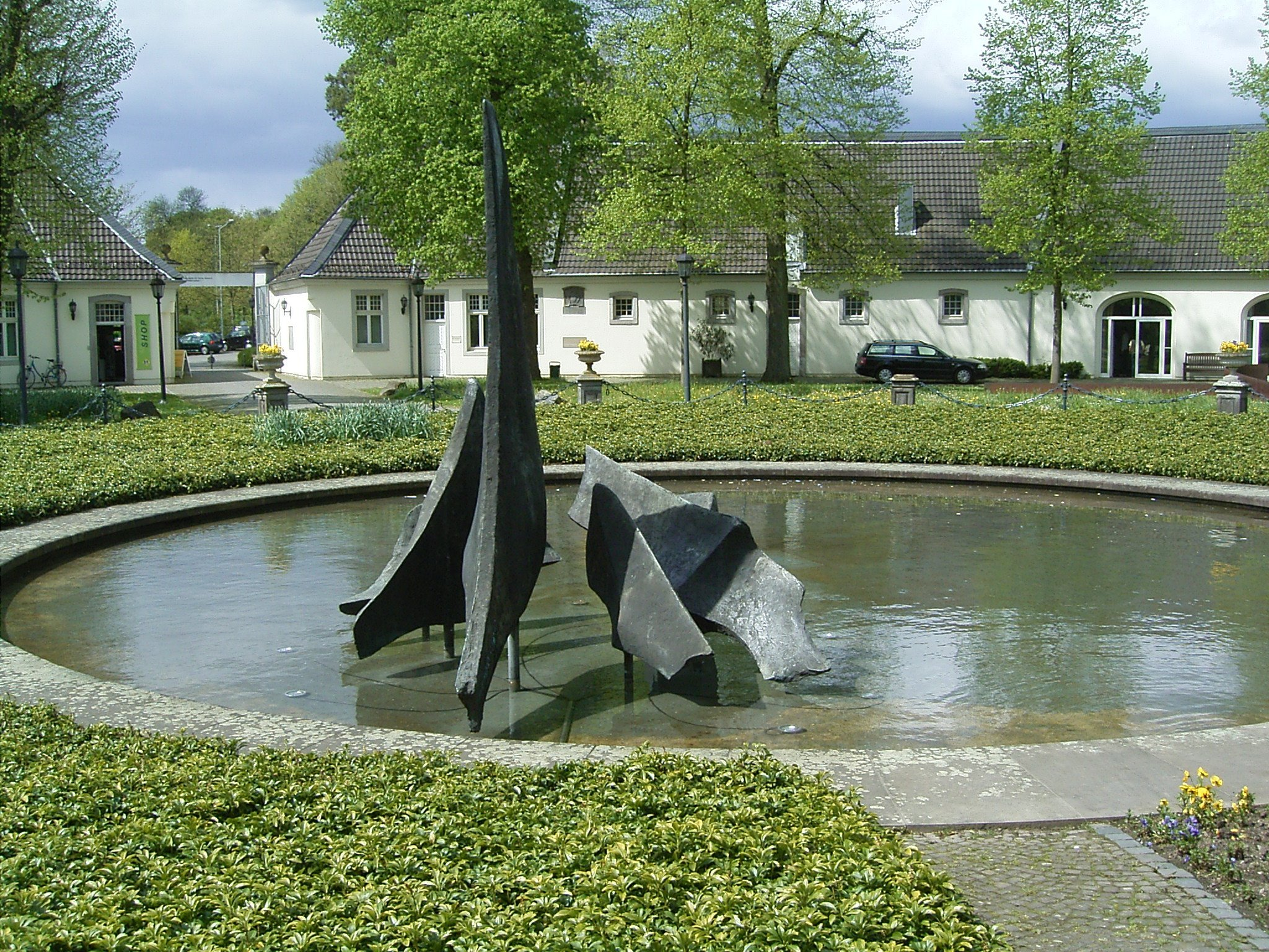 Schloss Morsbroich in Leverkusen/Germany: Fontaine monumentale by Alicia Penalba